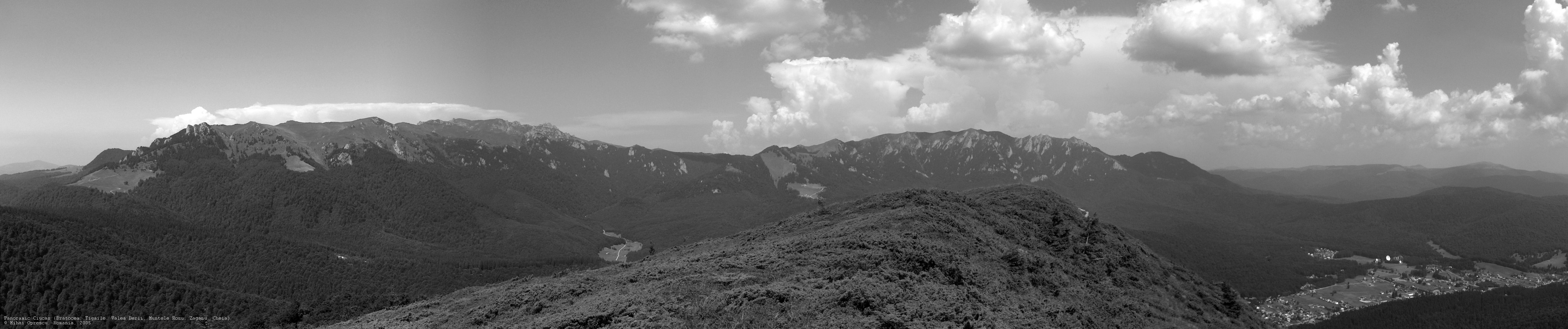 Panoramic Ciucas (Bratocea, Tigaile, Valea Berii, Muntele Rosu, Zaganu, Cheia)